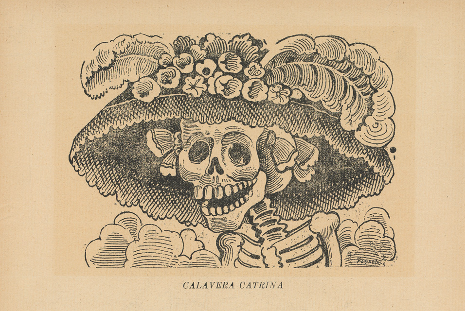 Calavera de la Catrina (Skull of the Female Dandy), from the portfolio 36 Grabados: José Guadalupe Posada, published by Arsacio Vanegas, Mexico City, c. 1910, zinc etching, 34.5 x 23 cm.